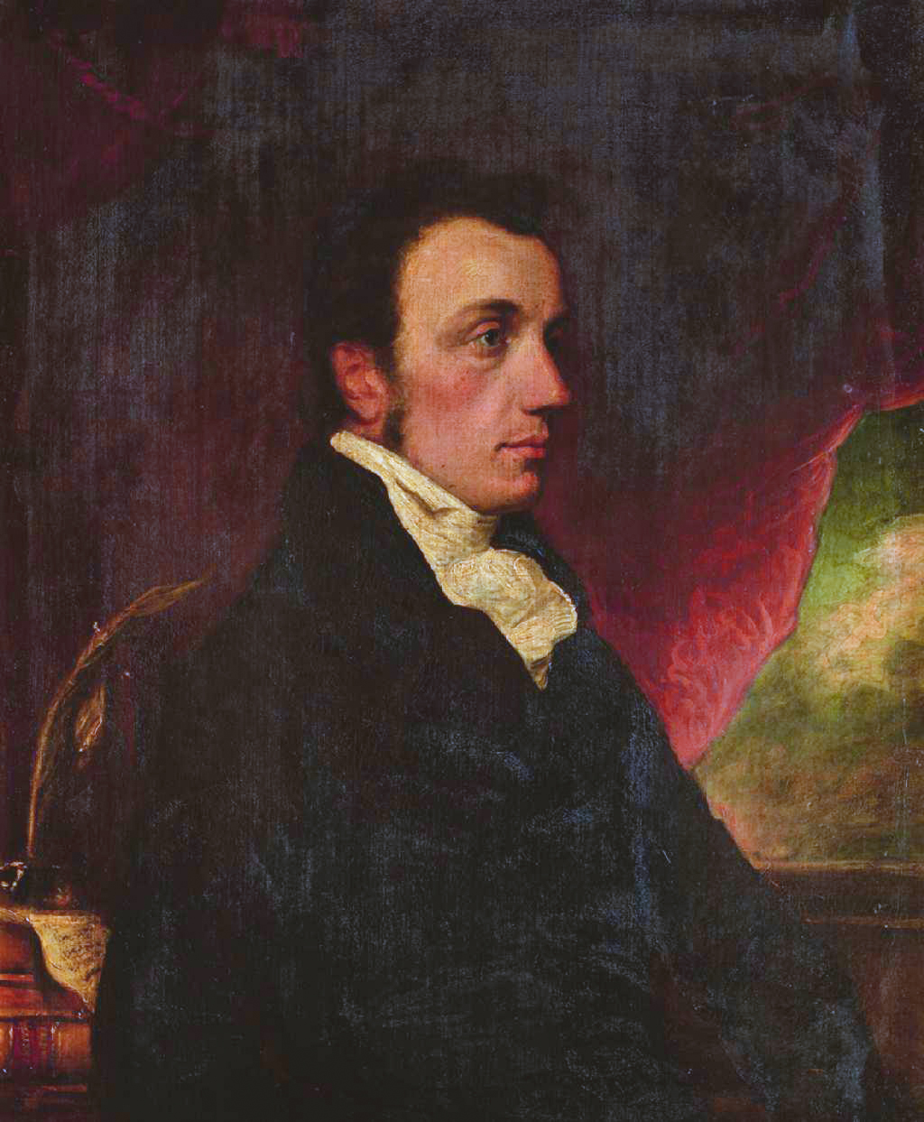 Edward Foss, under Sheriff of London and lawyer oil on canvas 75.5 x 60.5 cm circa 1816